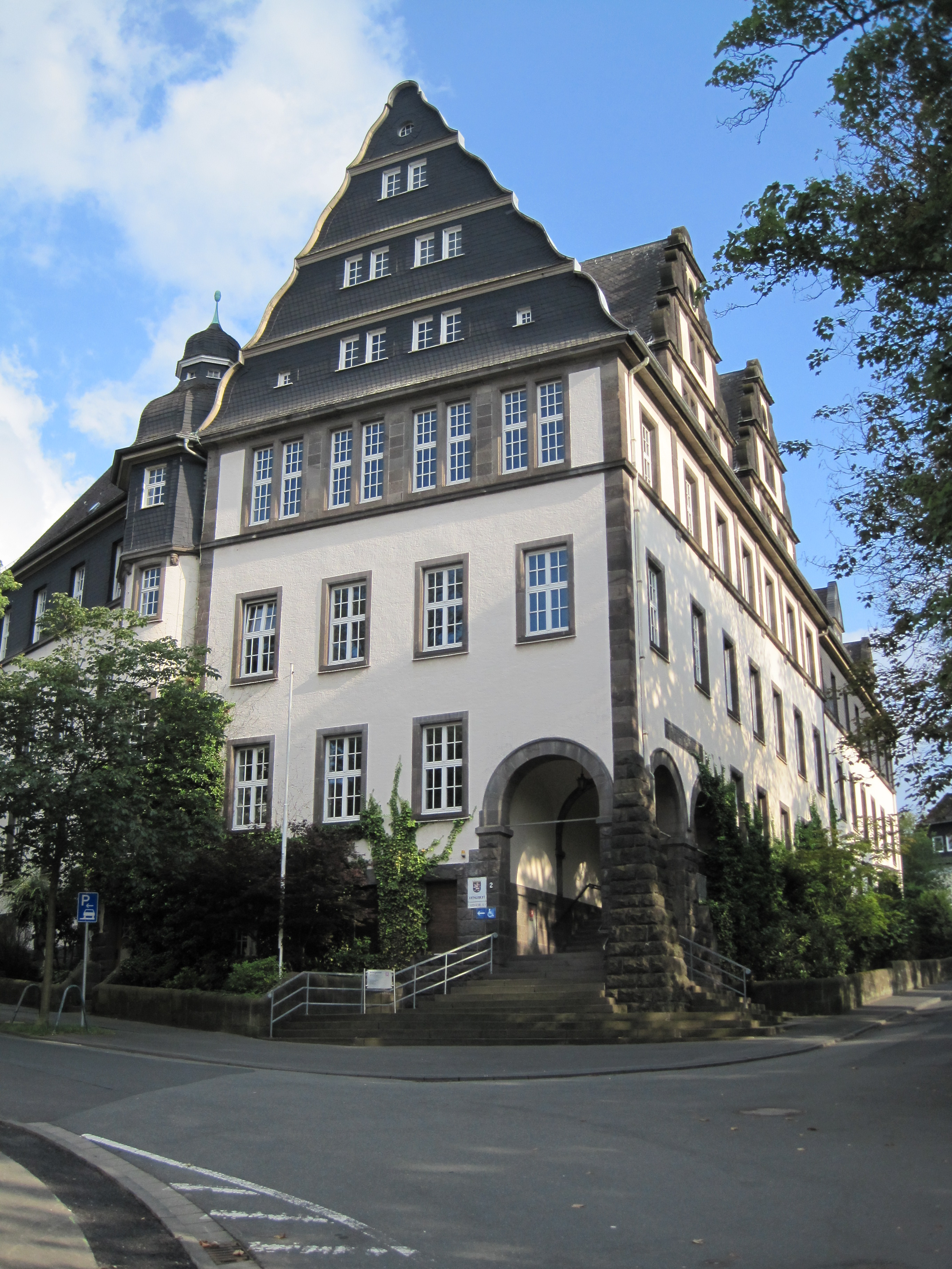 Courthouse Amtsgericht Wetzlar, Wetzlar, Germany check usage